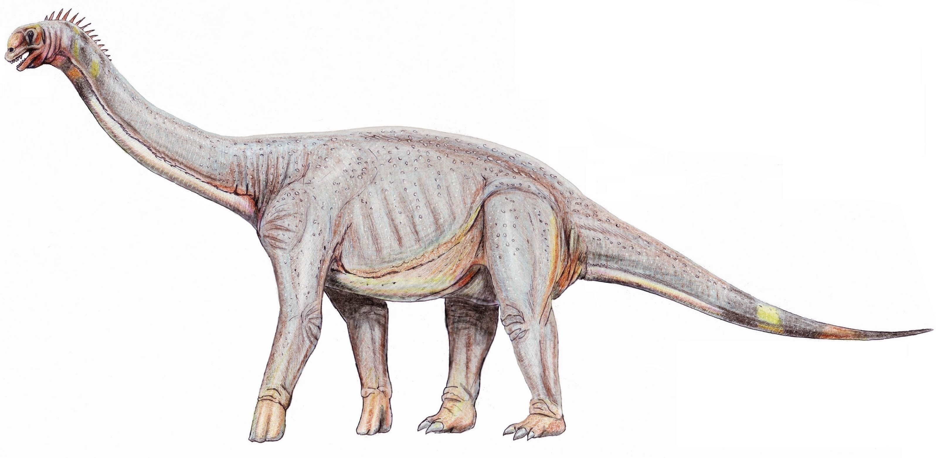 Astrodon johnstoni (aka Pleurocoelus) - macronarian from Aptian-Albian of Maryland, ?Texas, and Utah. About 15-18 meters long.